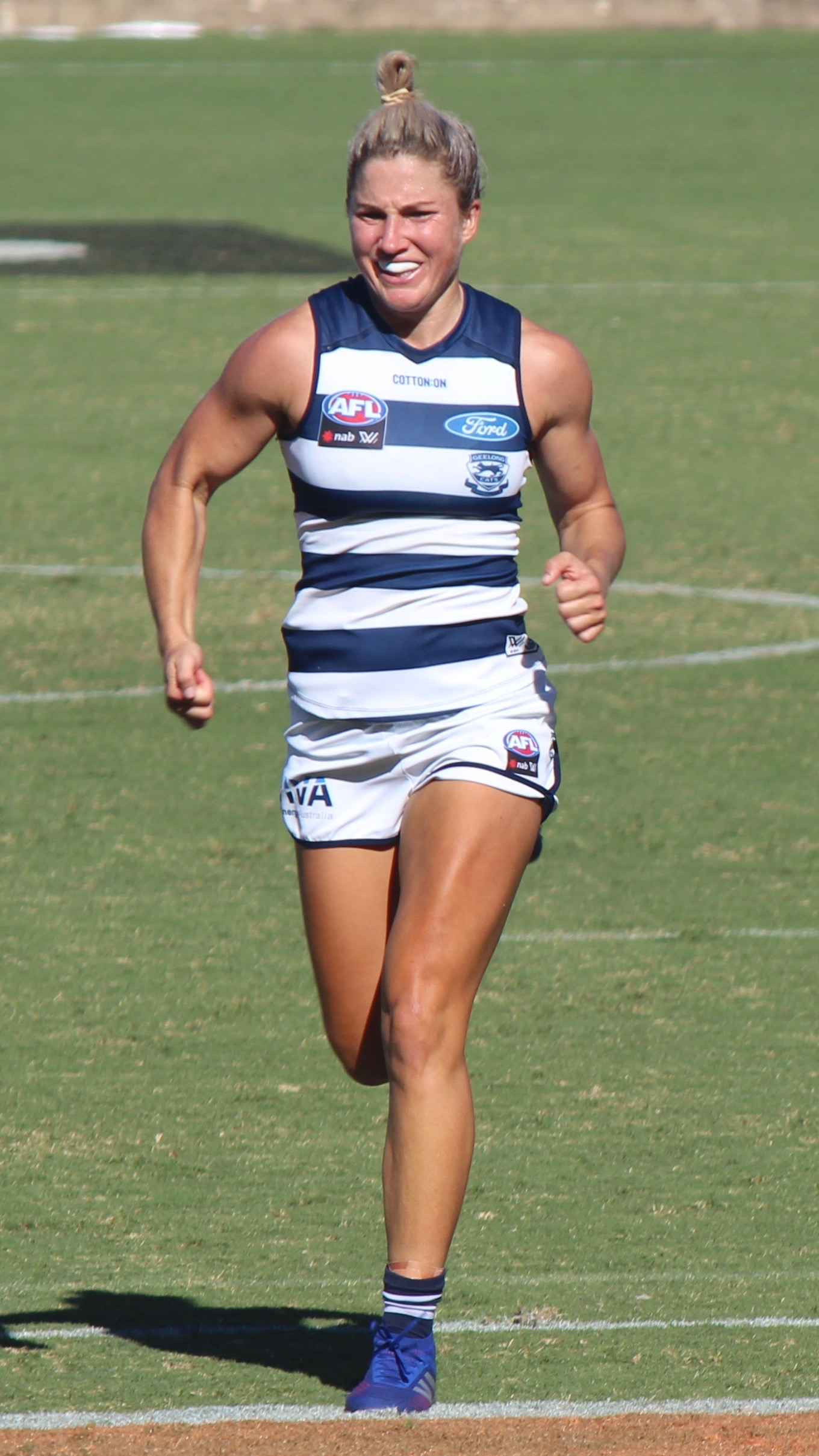 Melissa Hickey with Geelong during a match against Carlton at Kardinia Park in round 4 of the 2019 AFL Women's season.